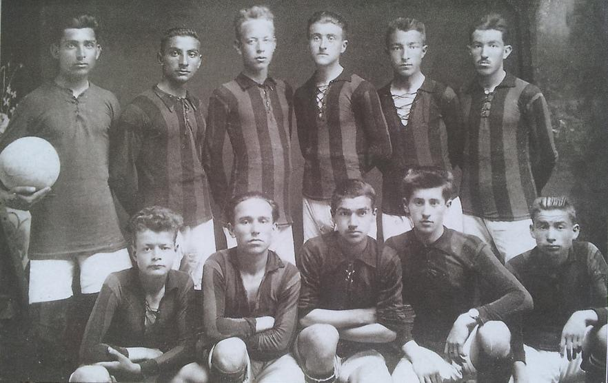 Gençlerbirliği SK squad in 2 August 1924.